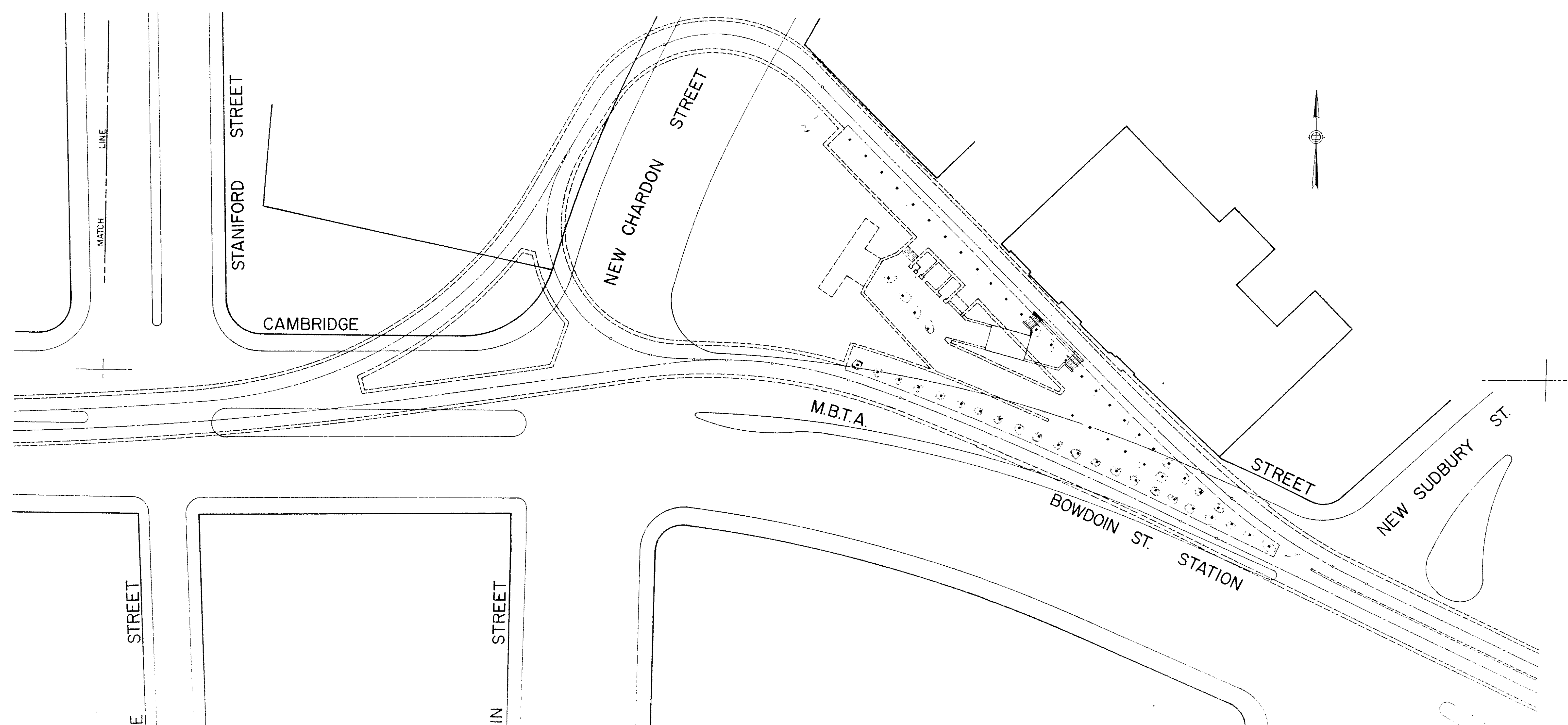 A 1986 plan of Bowdoin station. The configuration was largely unchanged at the time of upload.